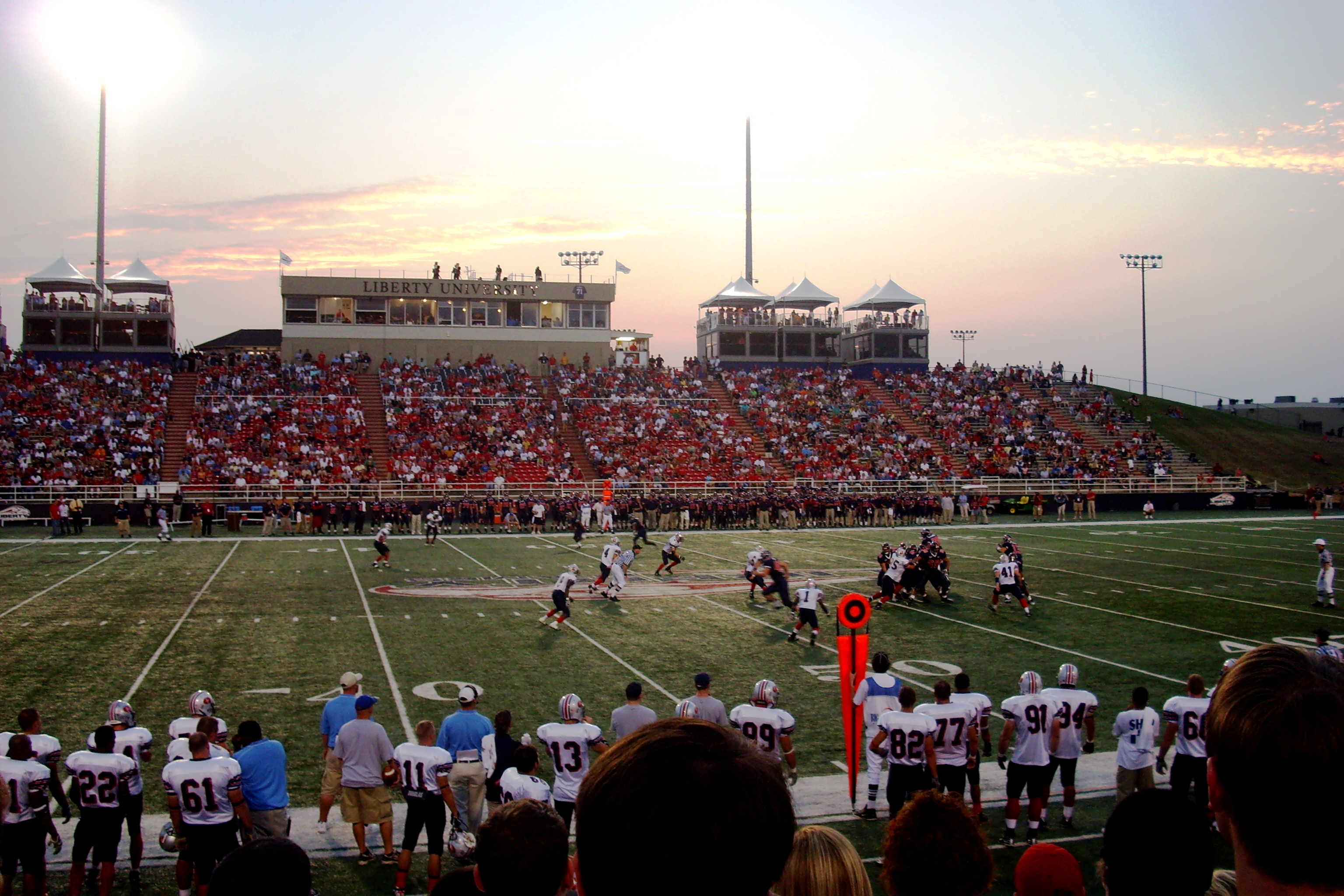 Liberty University Flames football game